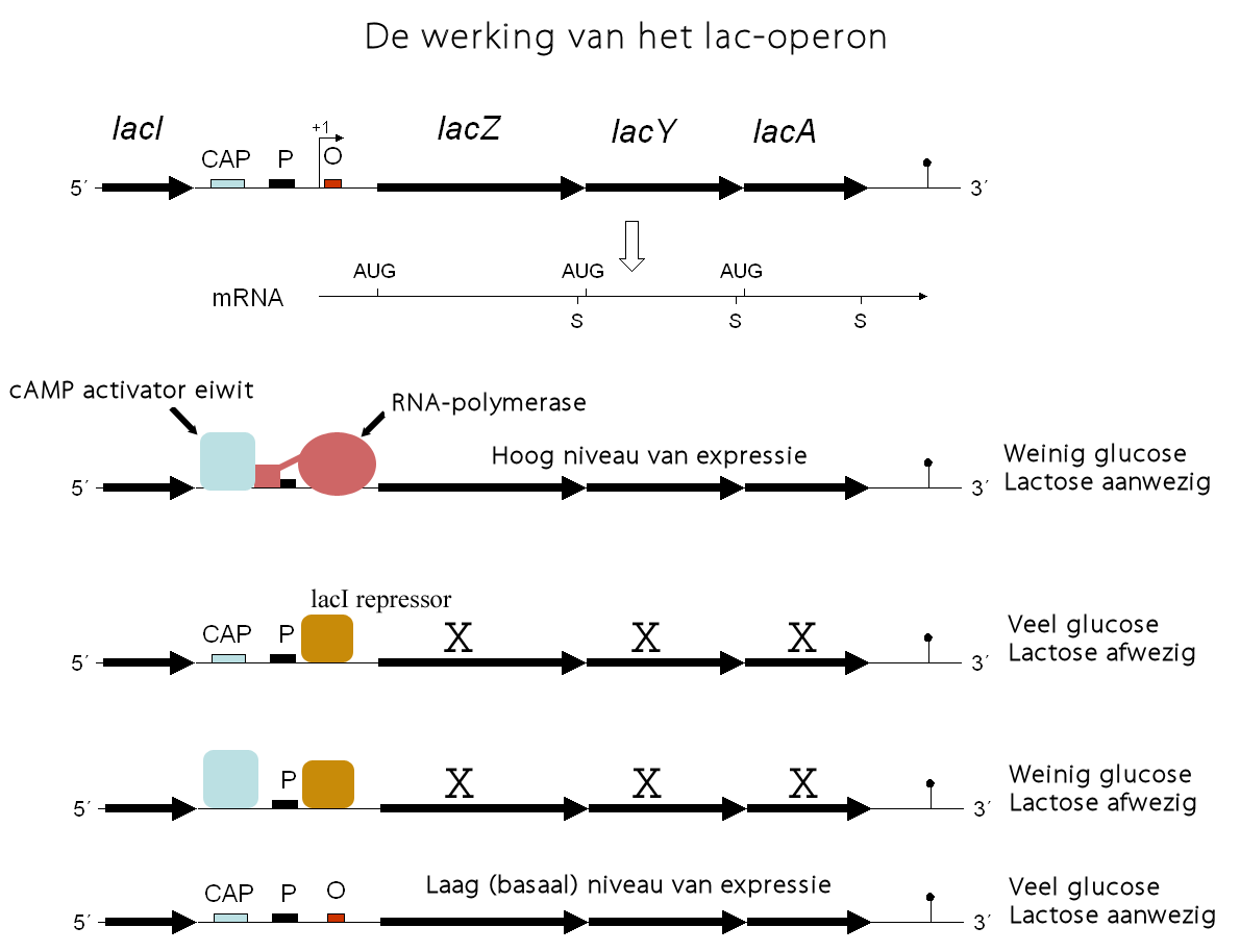 Diagram of the Lac Operon